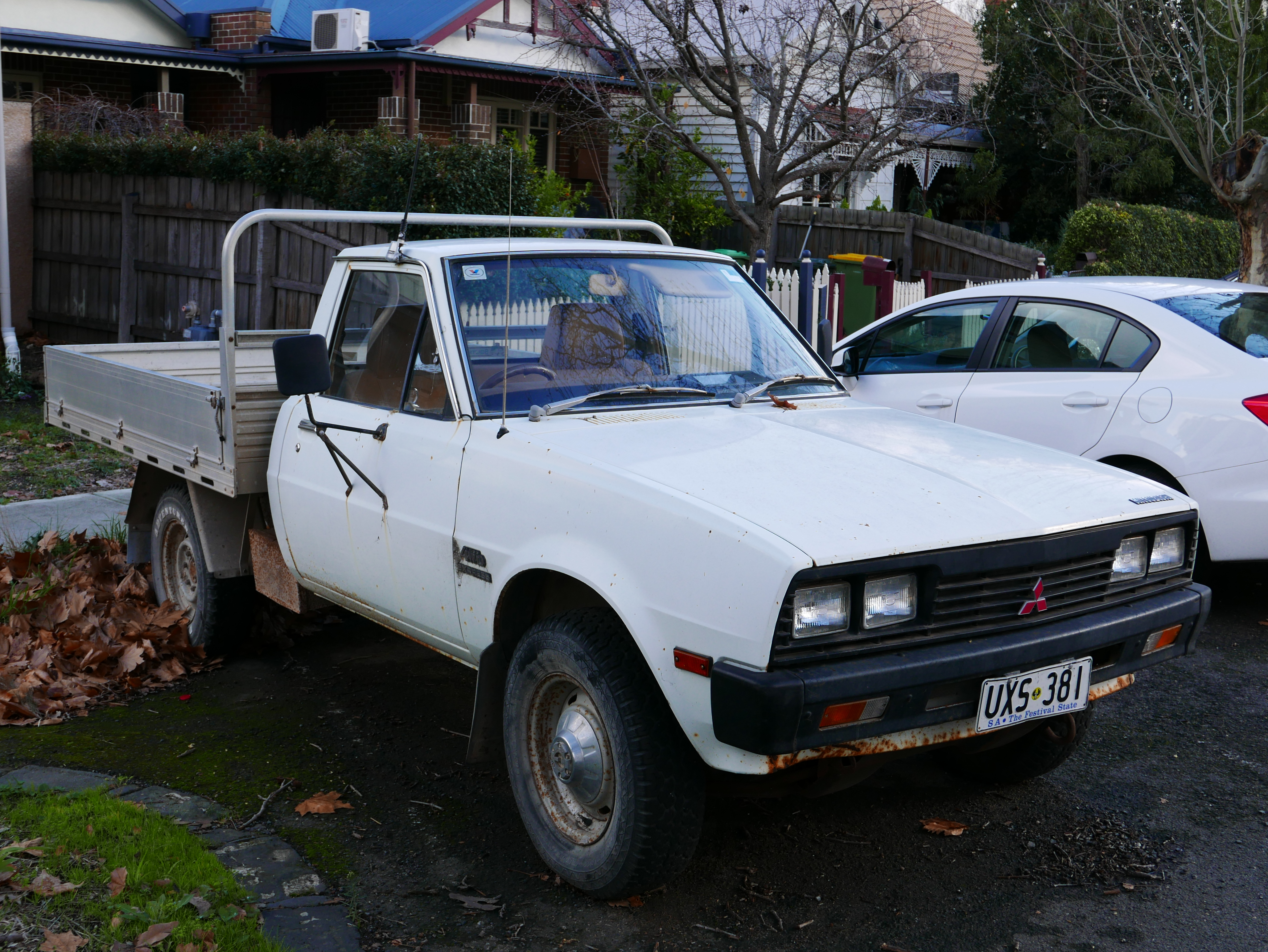 1984–1986 Mitsubishi L200 Express (MD) 4WD cab chassis. Photographed in Northcote, Victoria, Australia.